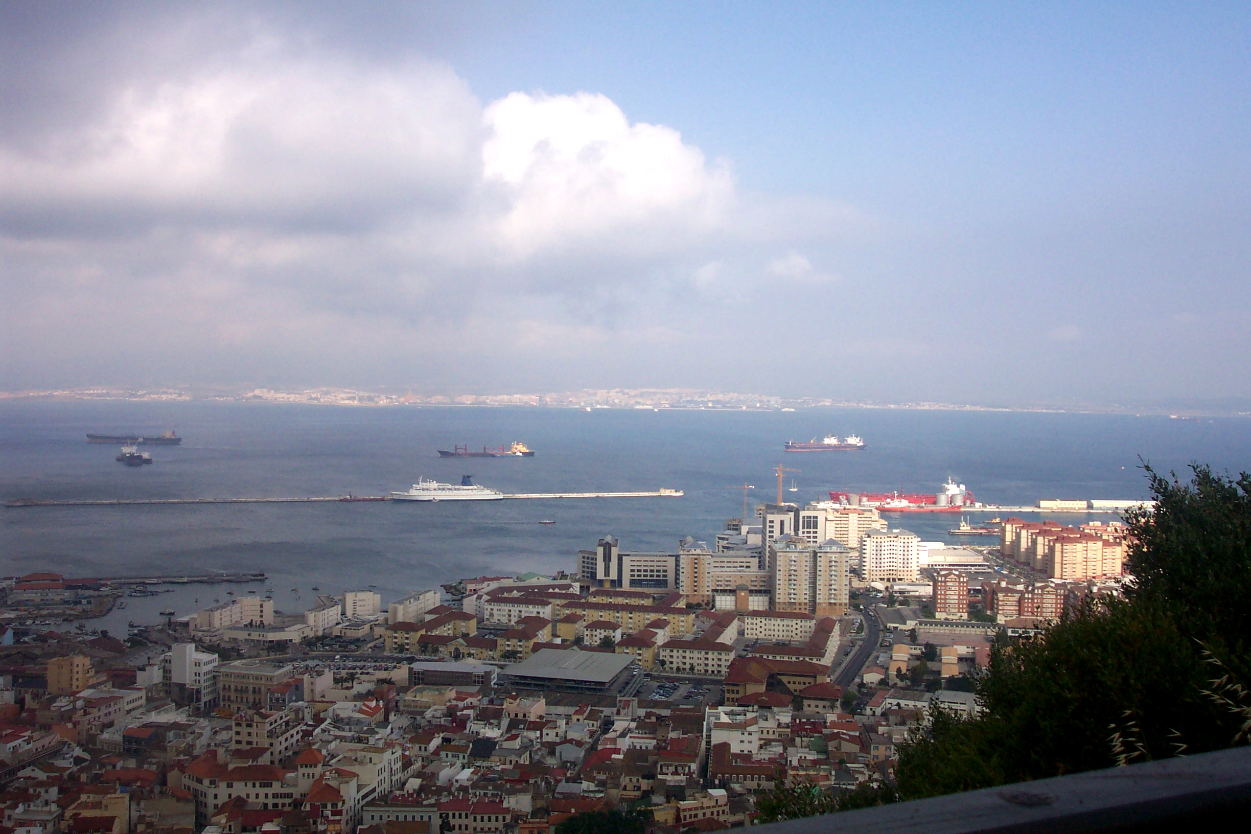 Looking from Gibraltar across to Algeciras, Spain